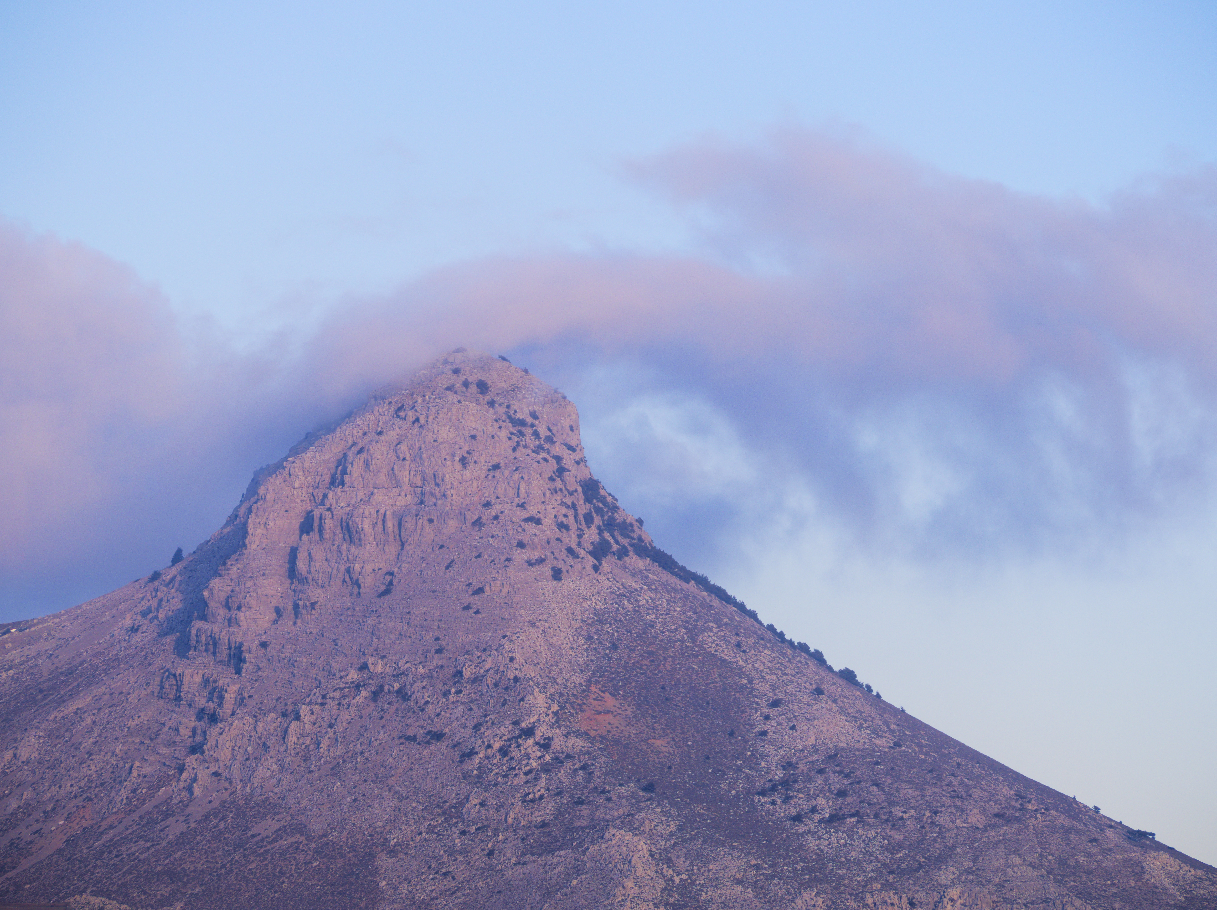 The peak of Kofinas, Crete. This is a photography of Natura 2000 protected area with ID GR4310005